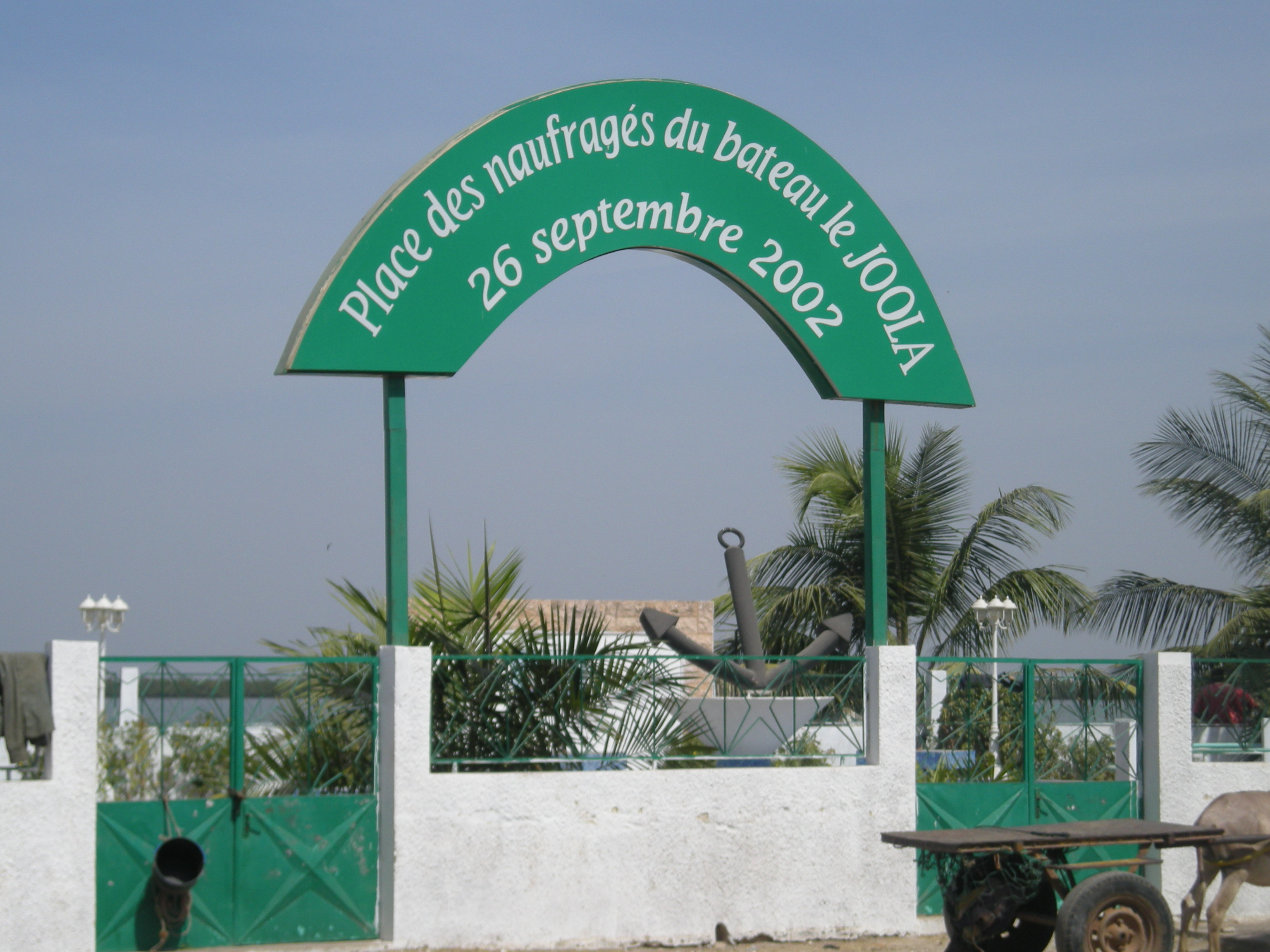 Ziguinchor (Casamance, Senegal) : Place of the sinking of the Joola, 22 September 2002